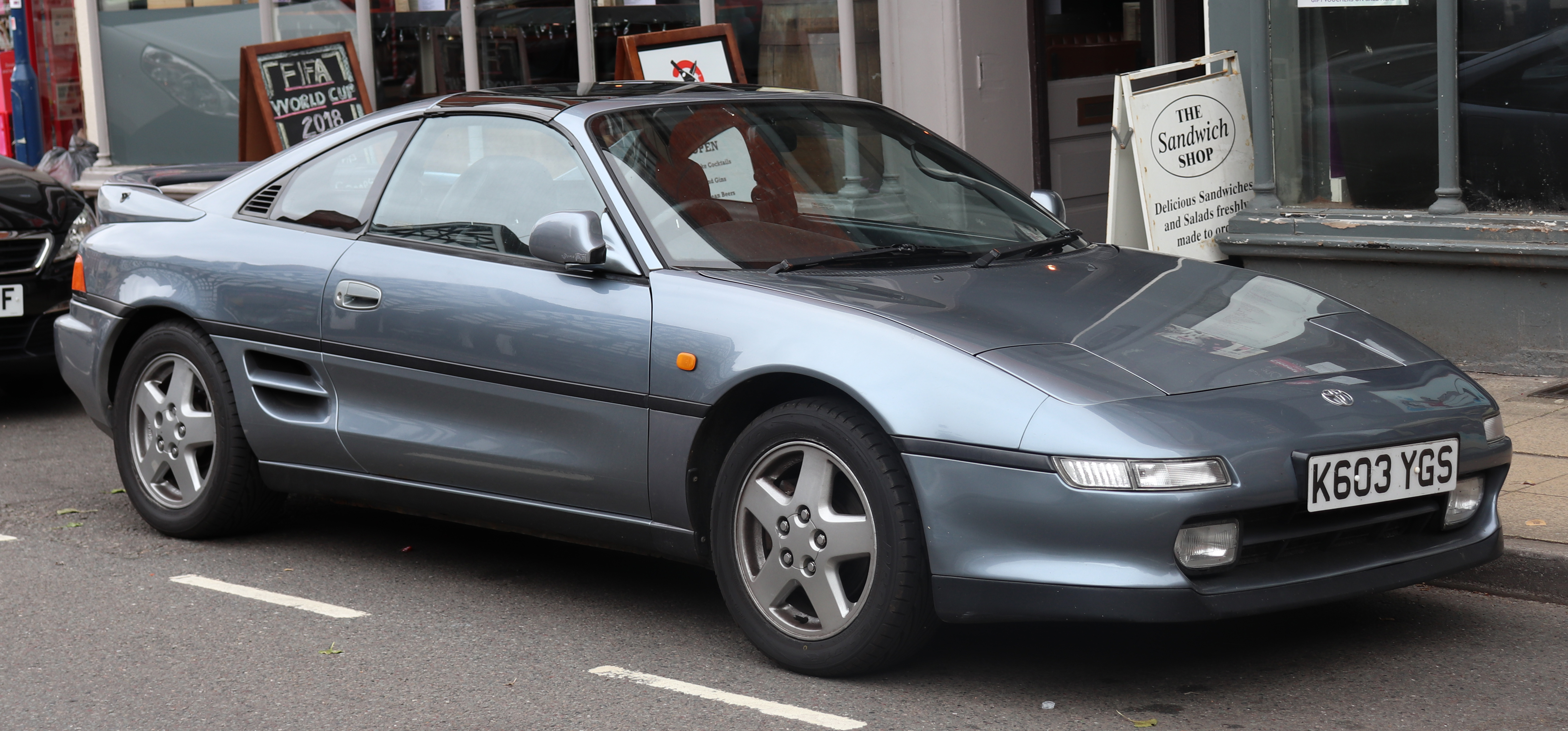 1992 Toyota MR2 GT 2.0 Front Taken in Warwick